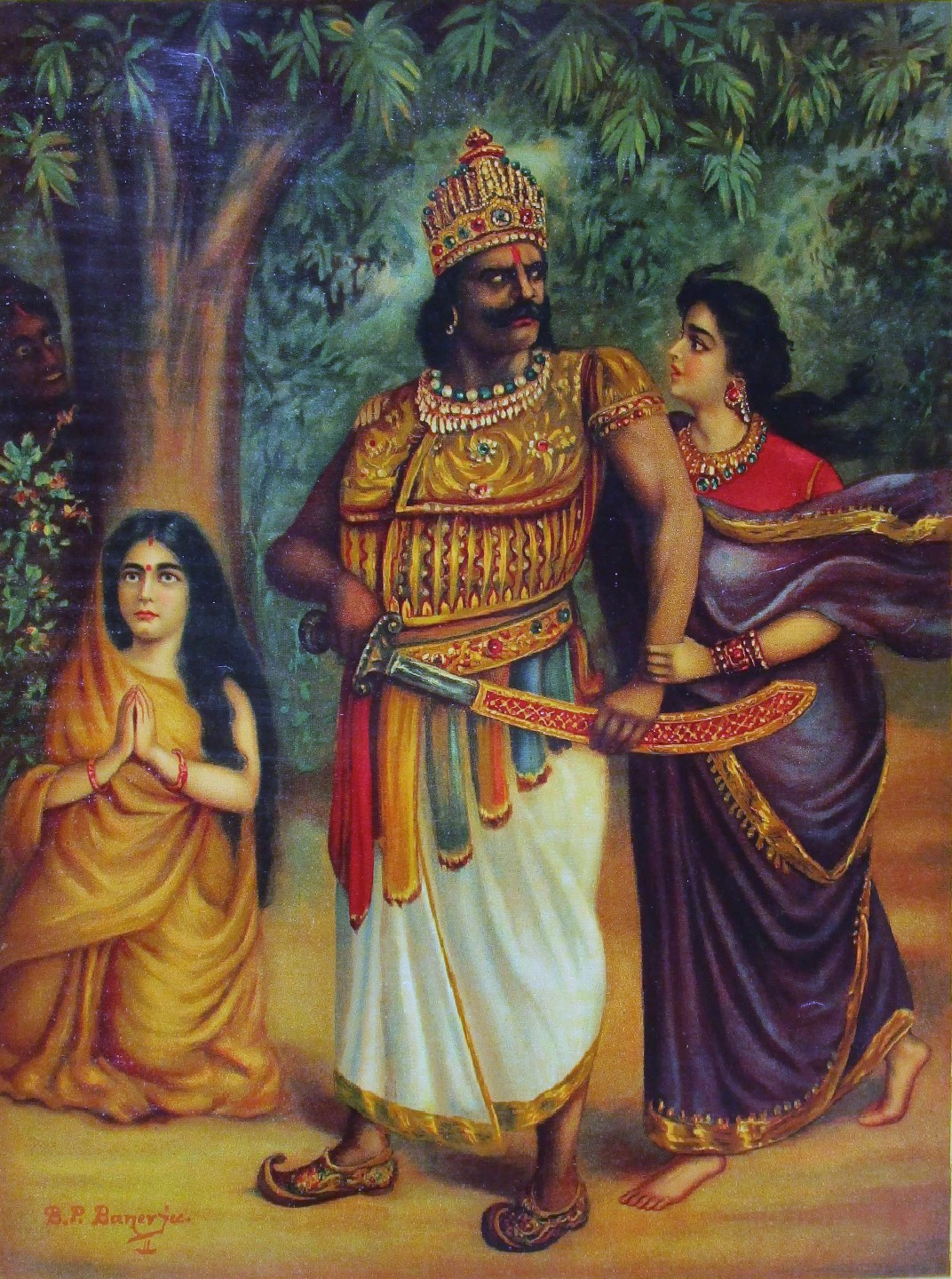 Mandodaree Repressing the Wrath Of Ravana, artist B.P. Banerjee | 1900's